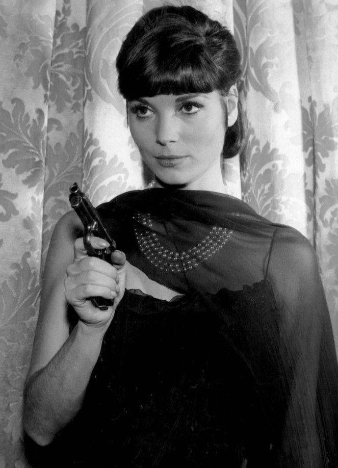 Photo of Elsa Martinelli from a guest appearance on the television progam The Rogues.